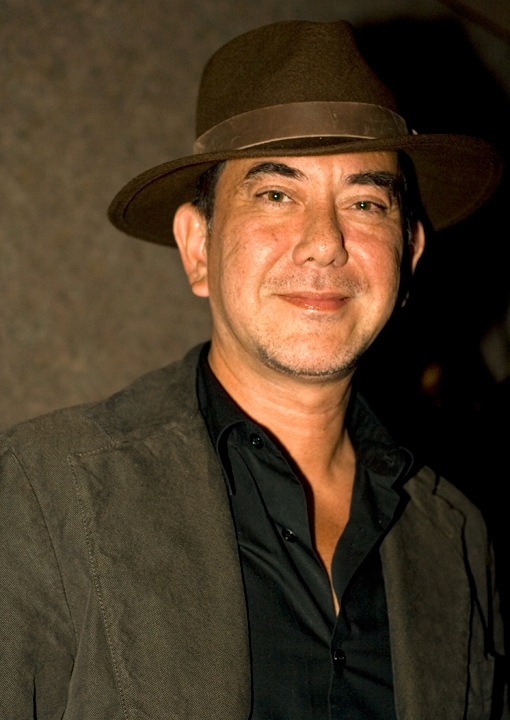 Anthony Wong Chau Sang at the 2008 Toronto International Film Festival